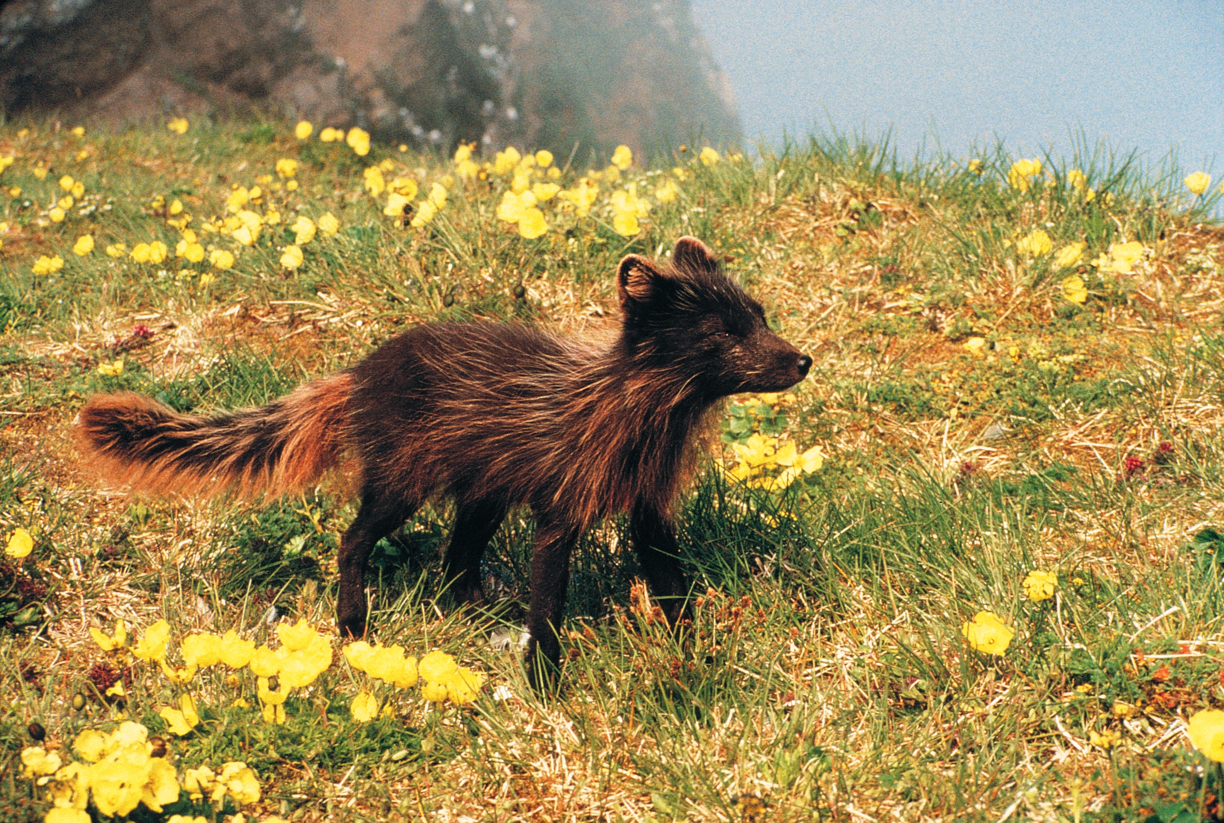 Alopex lagopus with summer coat, St. George Island, Alaska, USA.